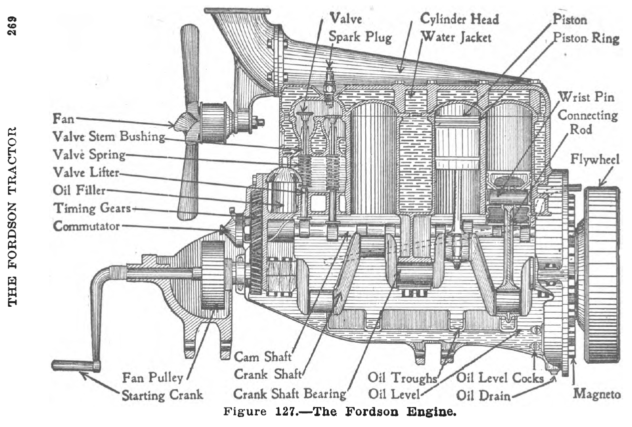 A cutaway view of the engine of the original Fordson tractor. Visible are the crankshaft, connecting rods, pistons, bearings, water jackets, and other principal parts, labeled in English.